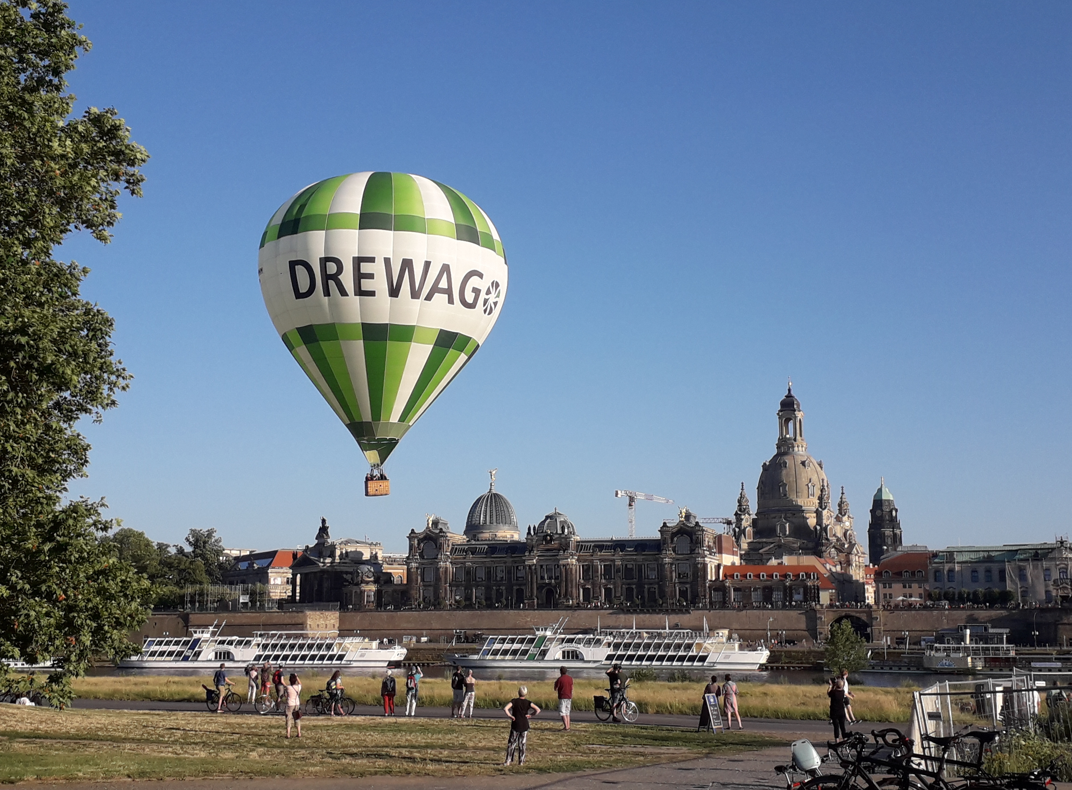 Start of hot air balloon (DREWAG) in front of the Brühlsche Terrasse Dresden